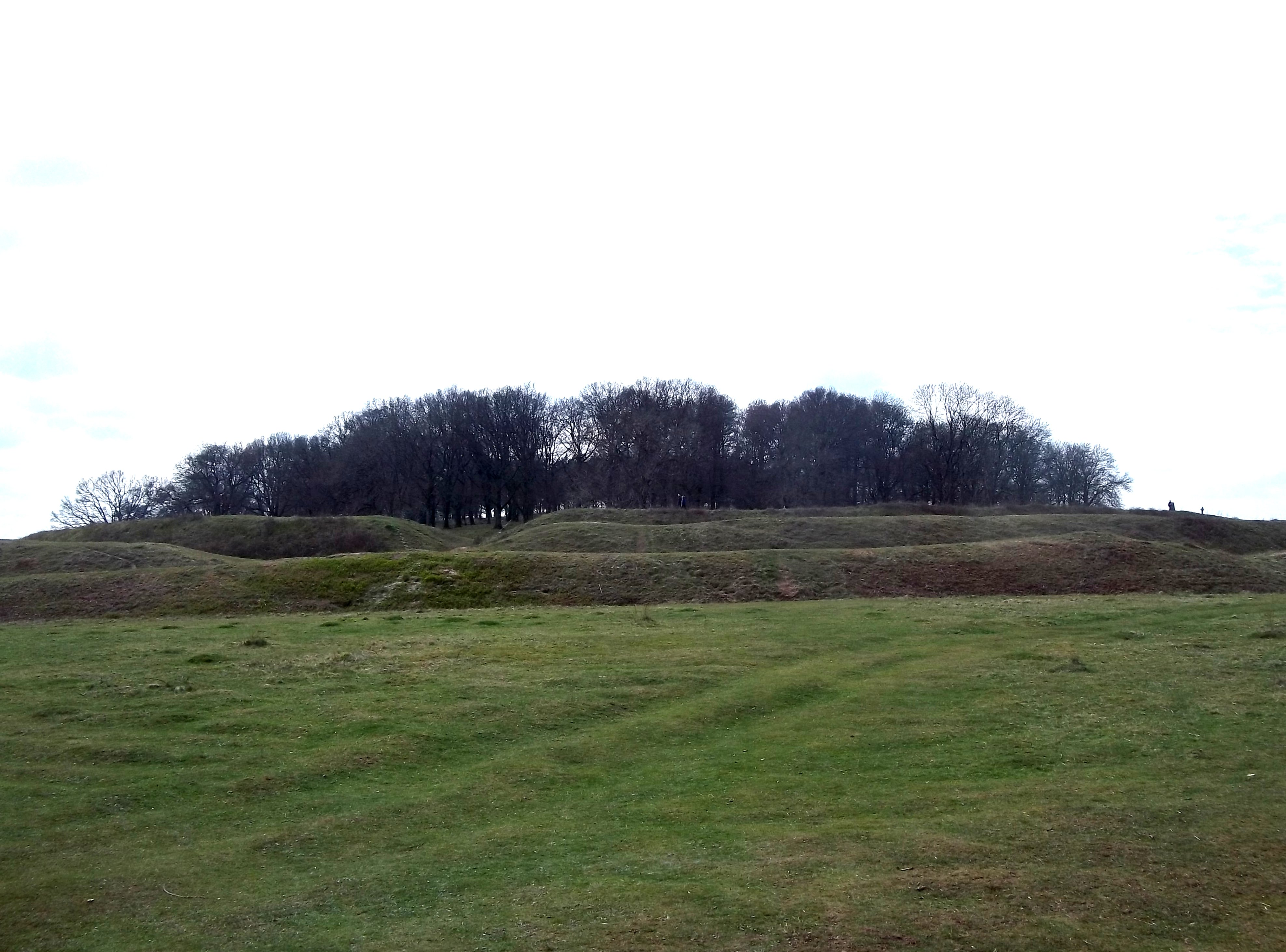 Atlas of Hillforts 3580 Badbury Rings - view from the northeast - April 2013